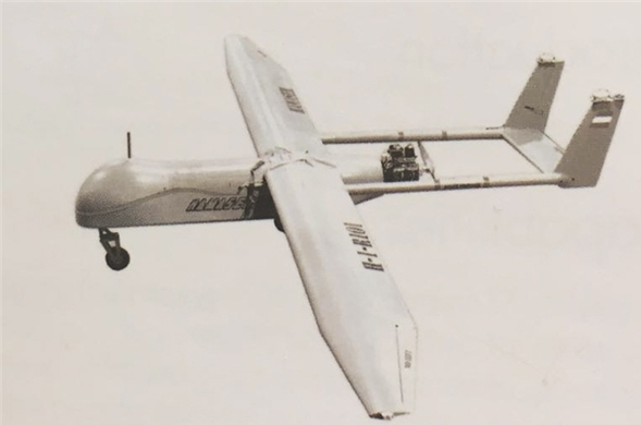 Iranian HESA Hamaseh UAV, top view